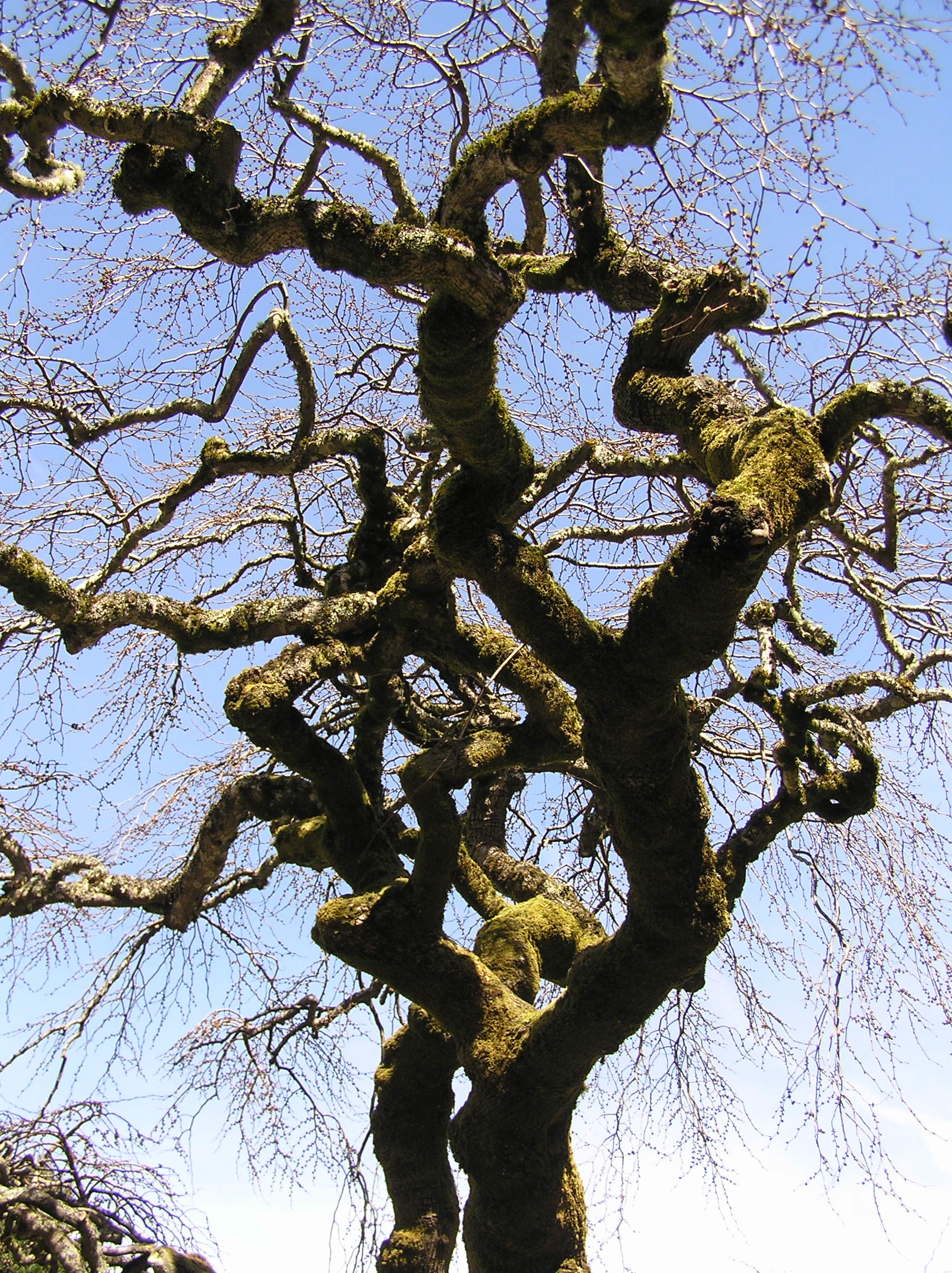 A view up into the convoluted branches of a Camperdown Elm tree located on the grounds of Filoli on the San Francisco peninsula.